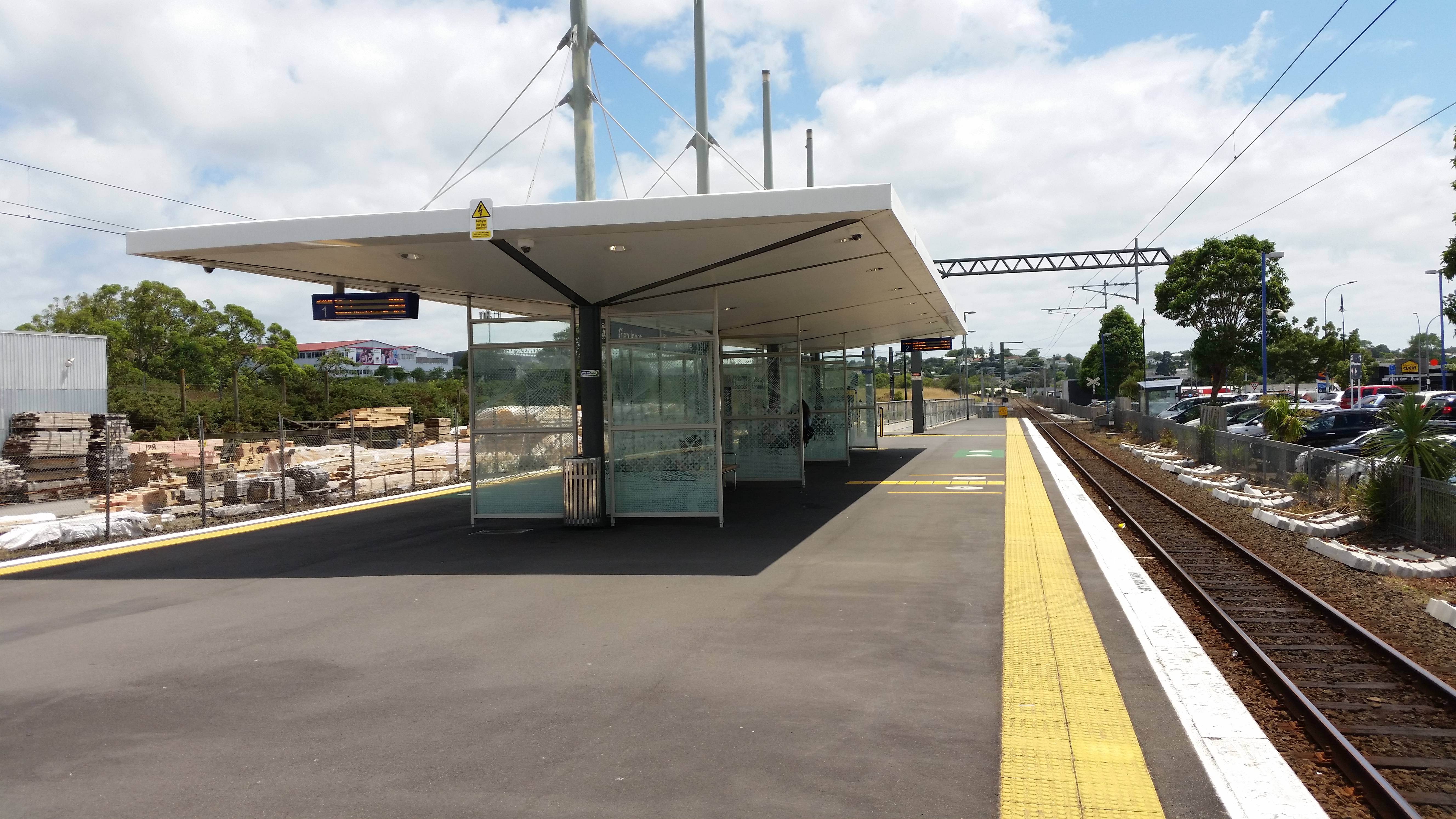 Glen Innes Railway Station, 25 January 2018, seen from the platform